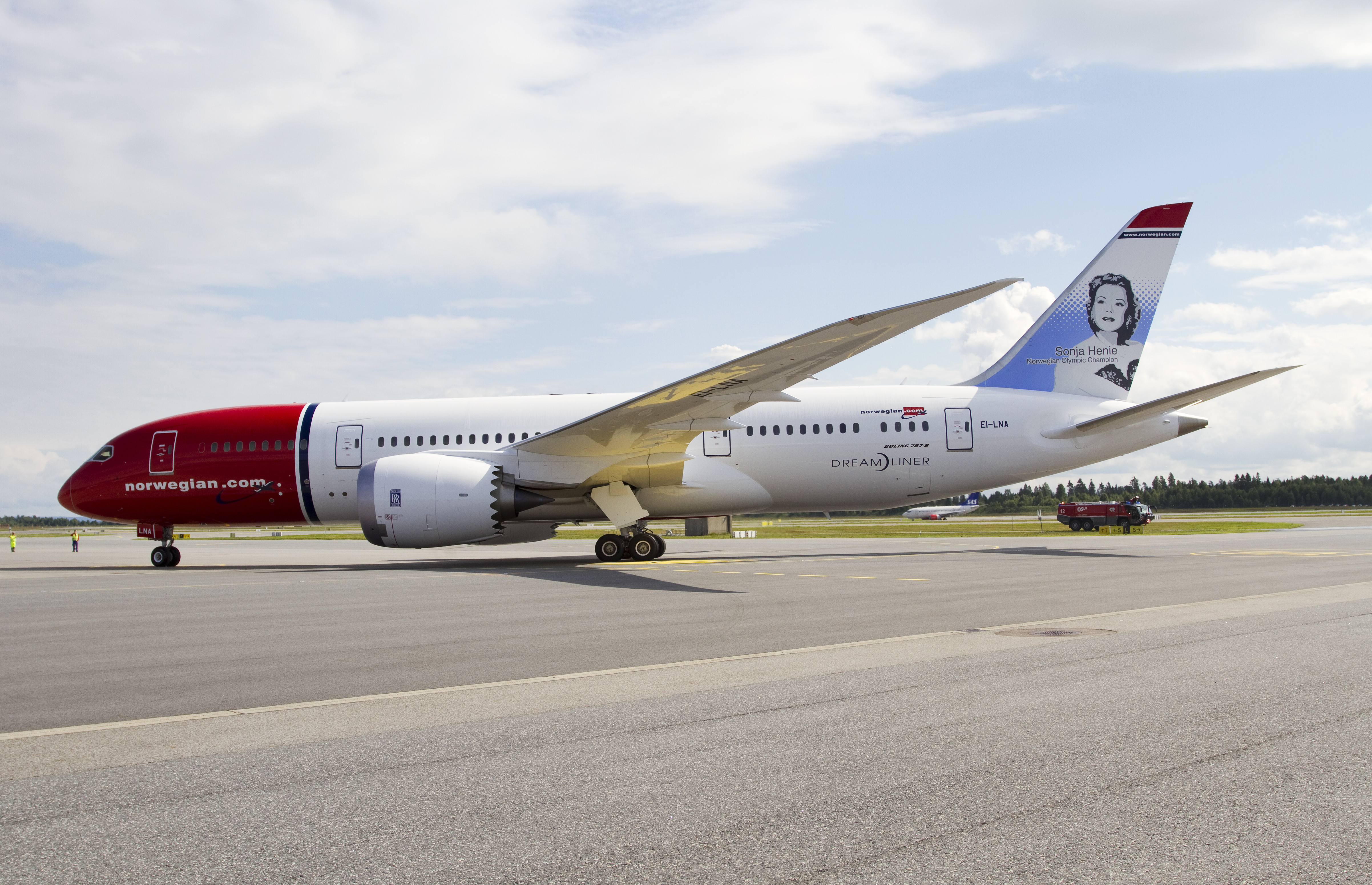 Norwegians first Dreamliner lands at Oslo Gardemoen